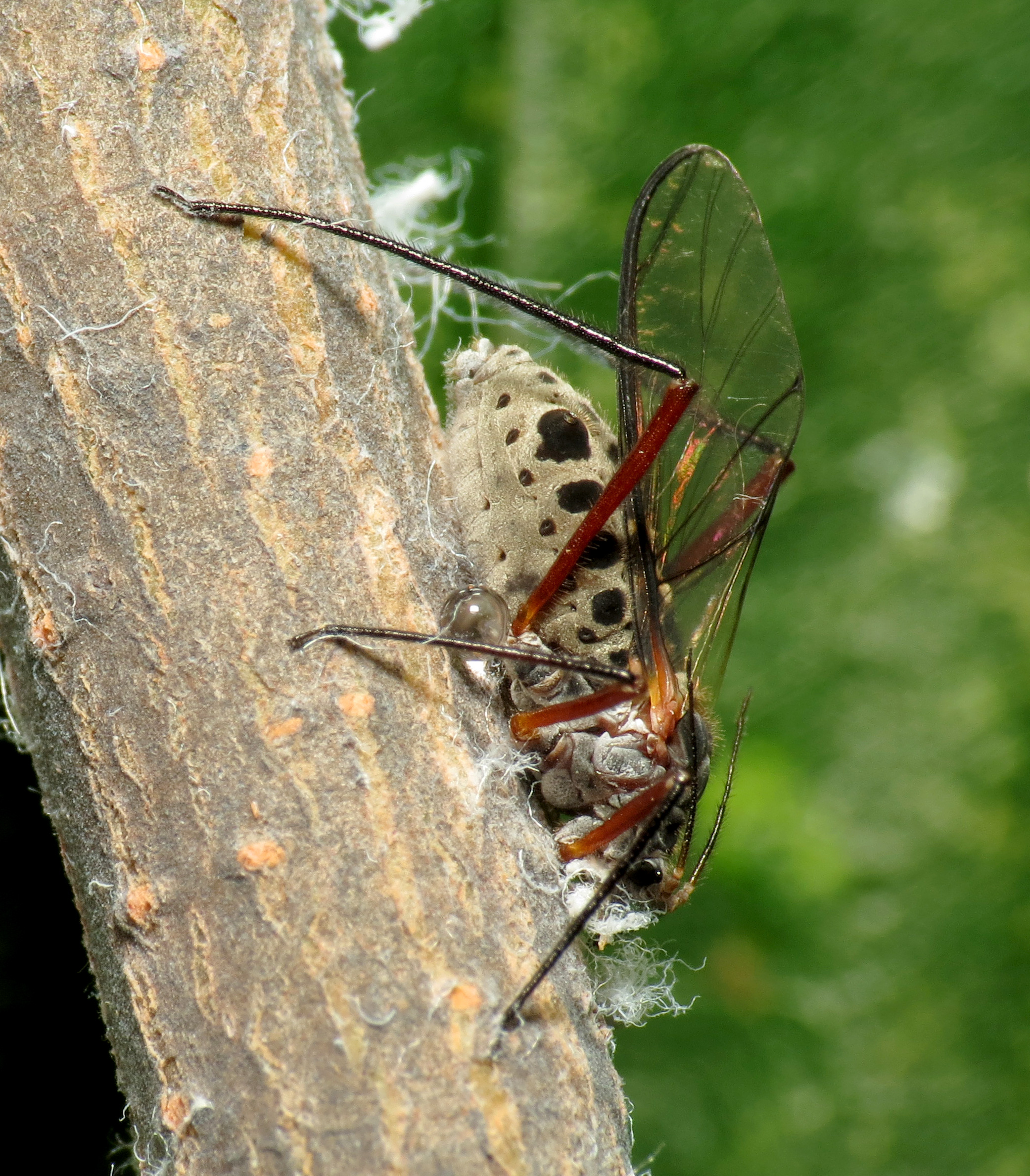 Longistigma caryae. Rock Creek Park, Washington, DC, USA